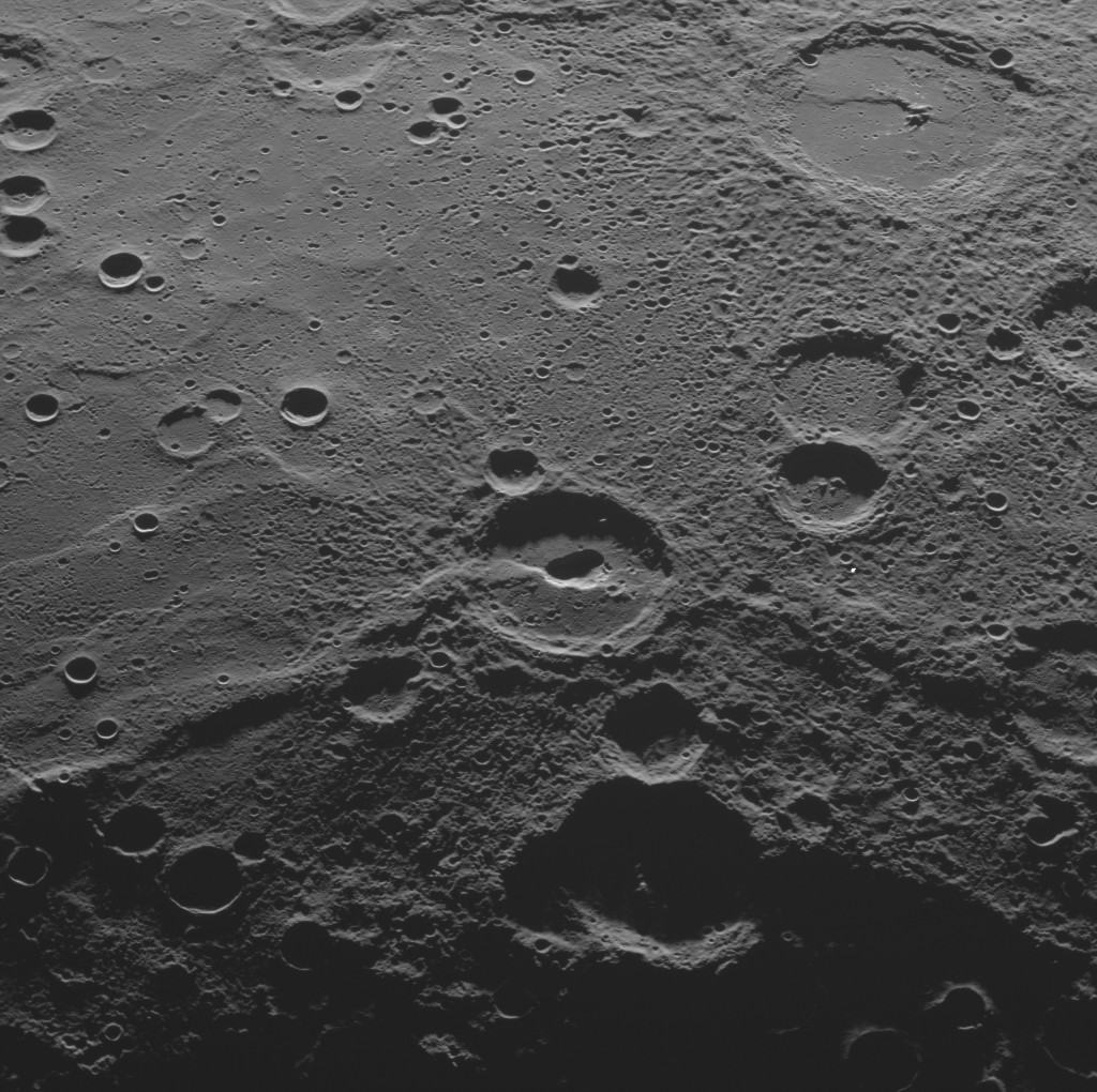 Geddes crater at center and Ts'ai Wen-Chi in upper right, on Mercury. MESSENGER Wide Angle Camera image. Approximate north is at left. Emission Angle: 37.4 Incidence Angle: 85.0 Latitude: 27.4 Longitude: 330.7 Phase Angle: 122.4